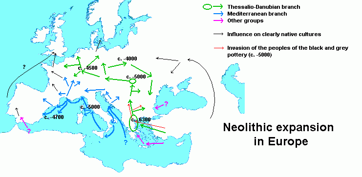 Schematic map of Neolithic expansion in Europe.